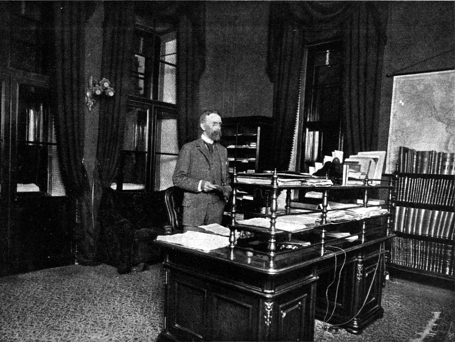 Guido Freiherr von Call zu Rosenburg und Kulmbach (1849-1927), Minister of Trade of Austria-Hungary, at his office.